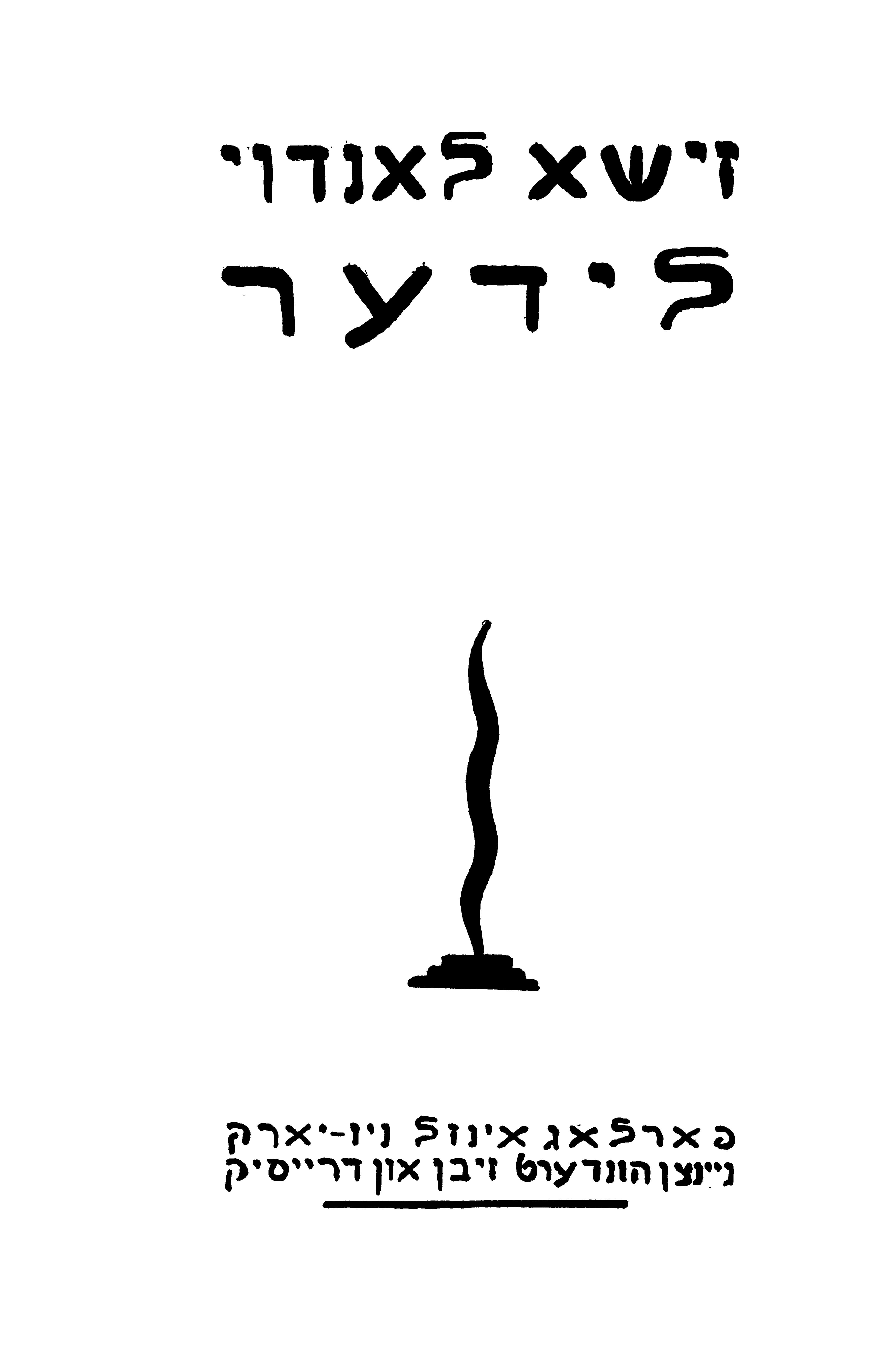 Zishe Landau: Cover of the book "Lider" (Songs) from 1937